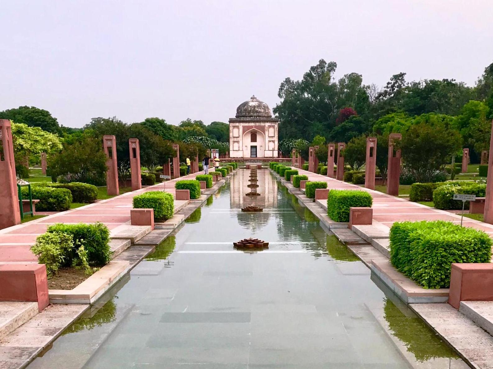 Main water channel of the Sunder Nursery in Delhi.